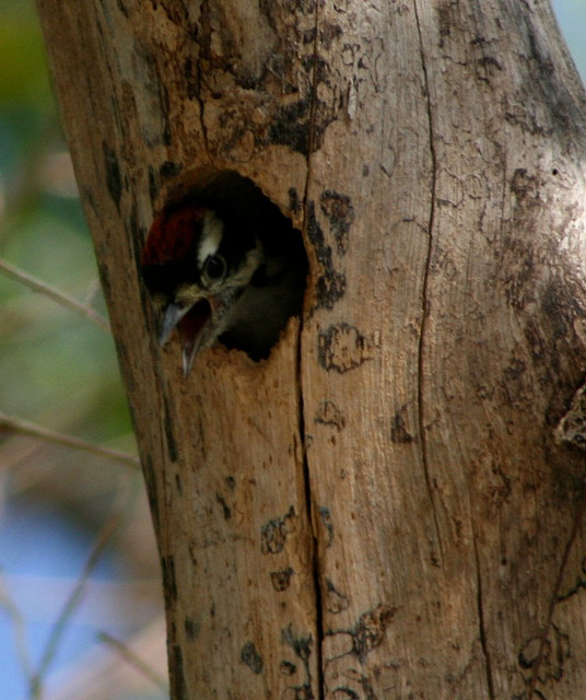 Juvenile Downy Woodpecker